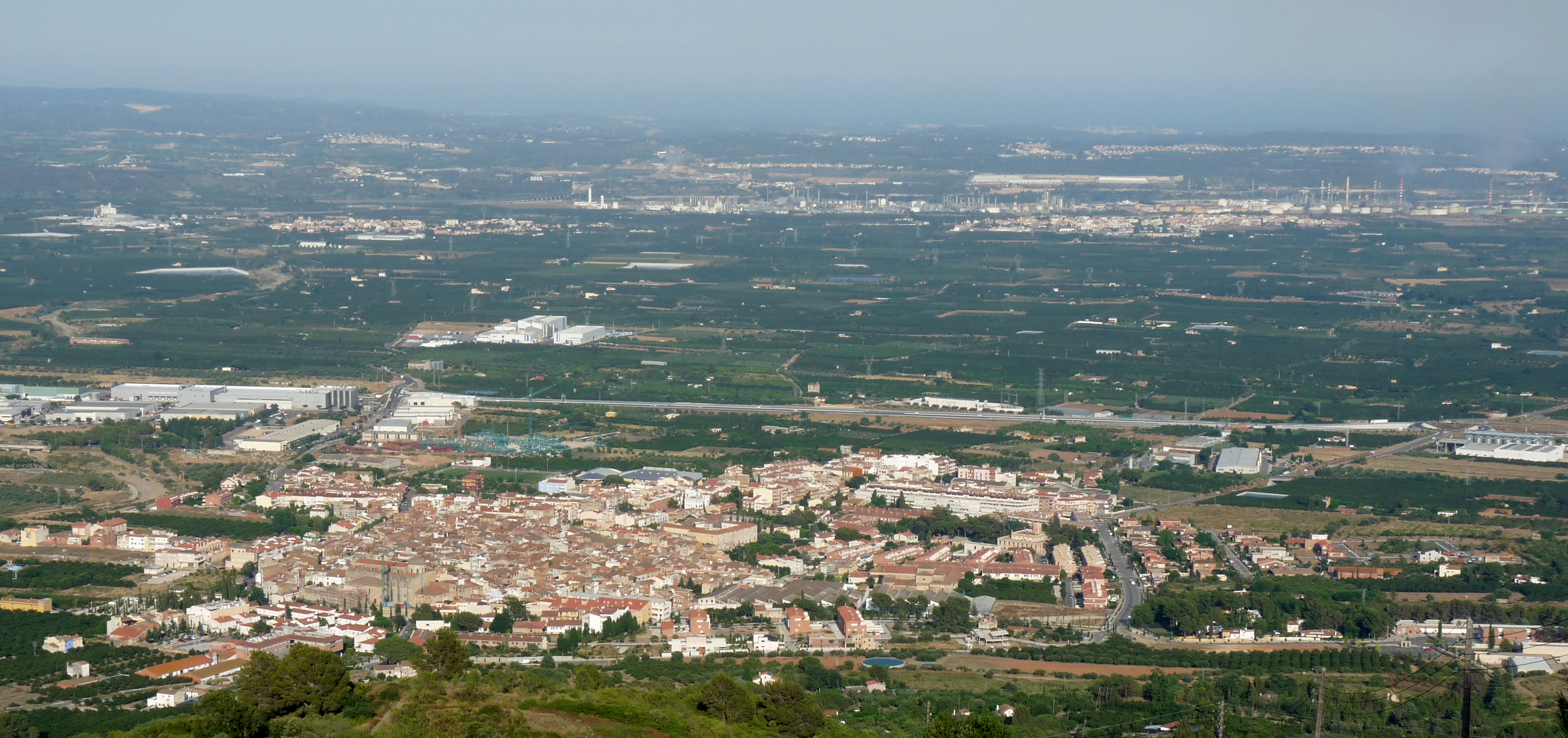 La Selva del Camp from hermitage of Sant Pere